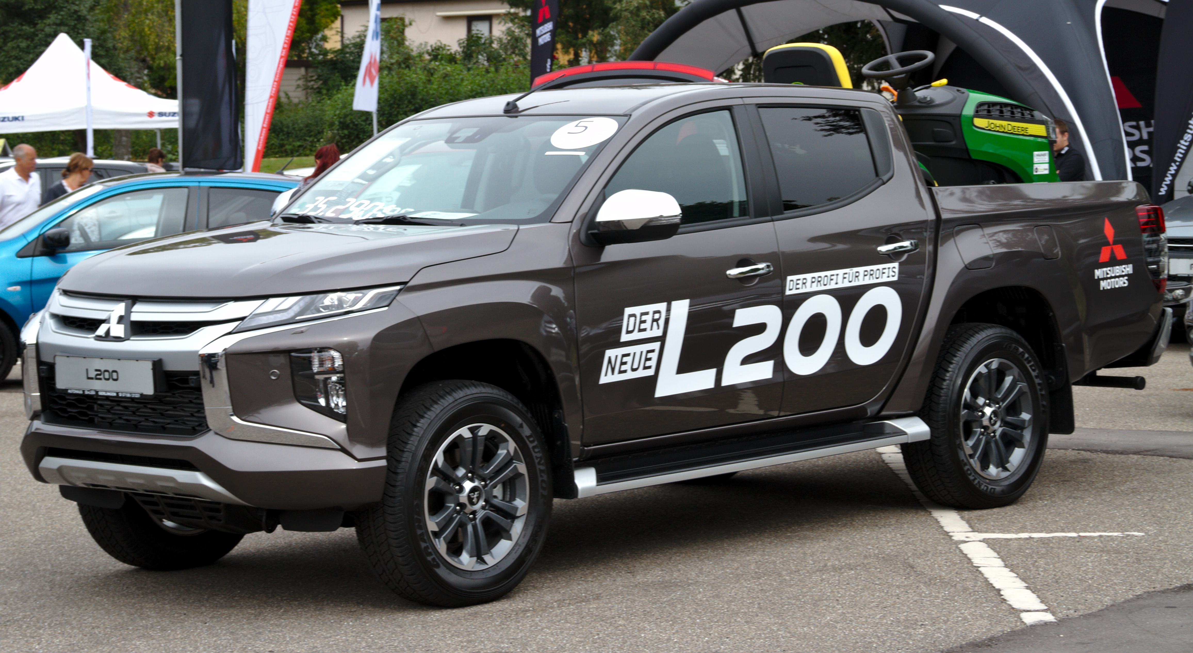 Mitsubishi_L200_(2019) at Leonberger Autoschau 2019